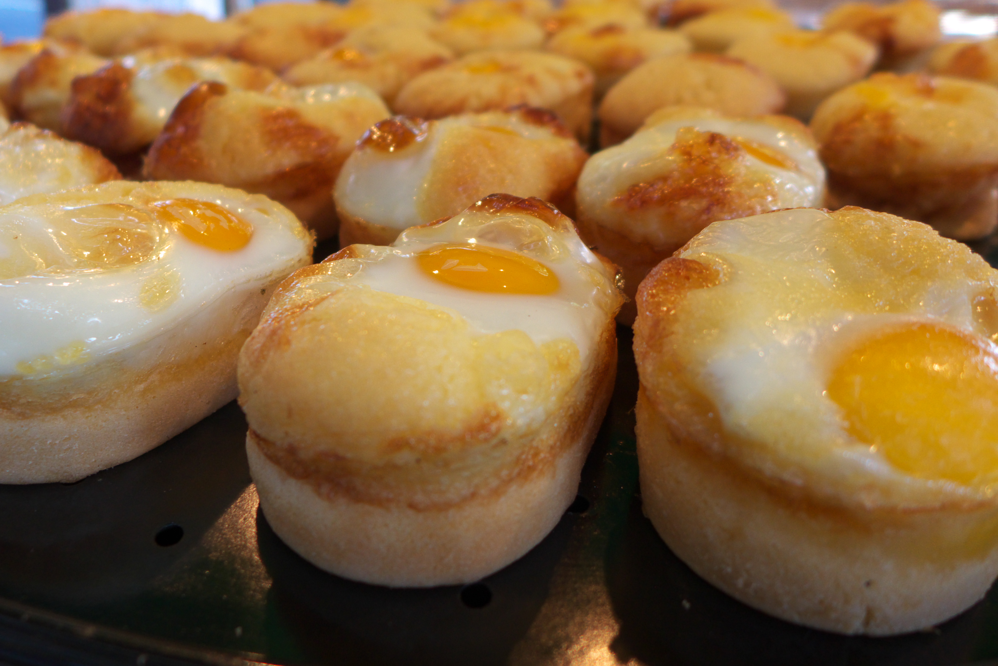 Gyeranppang (egg bread/muffin) in Seoul, Korea